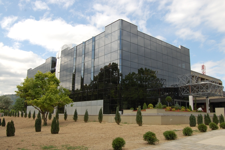 National and University Library "St. Clement of Ohrid" in Skopje.